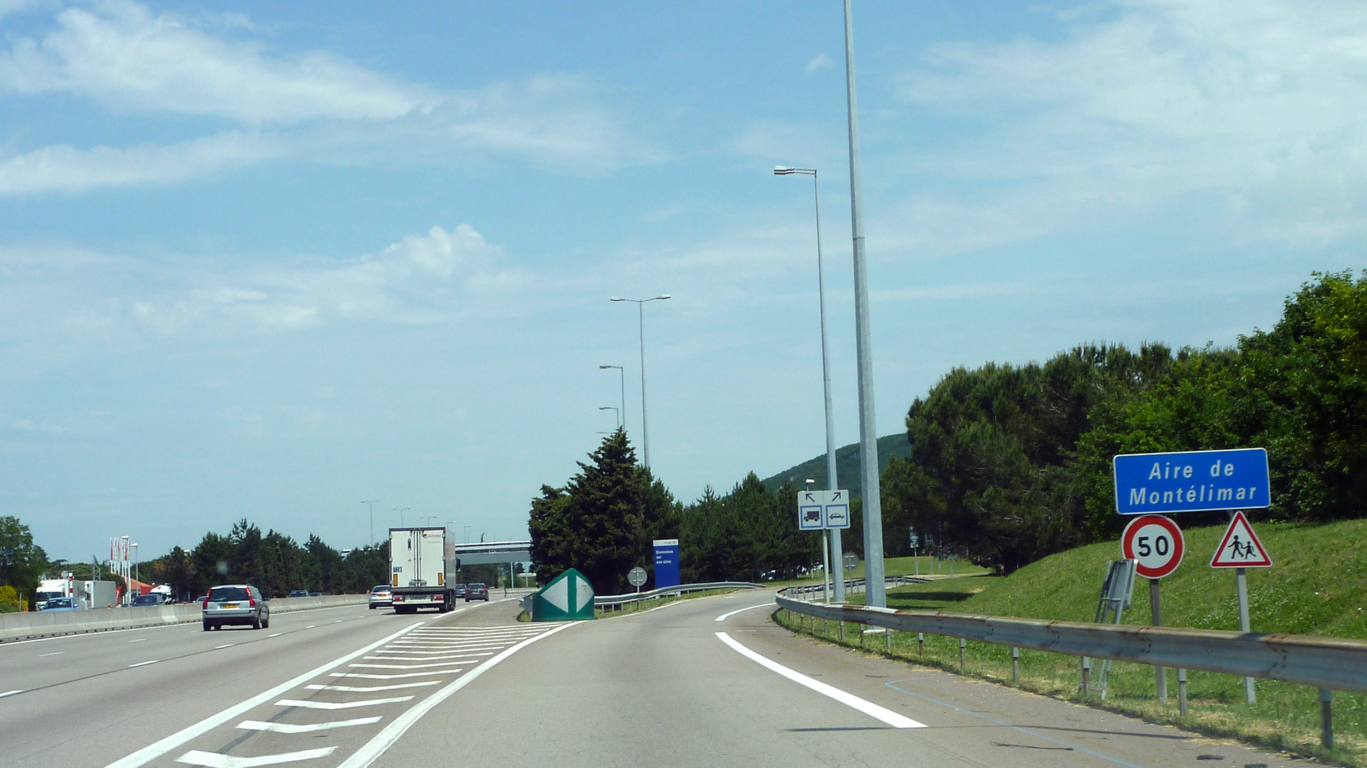 Autoroute A7 (France)